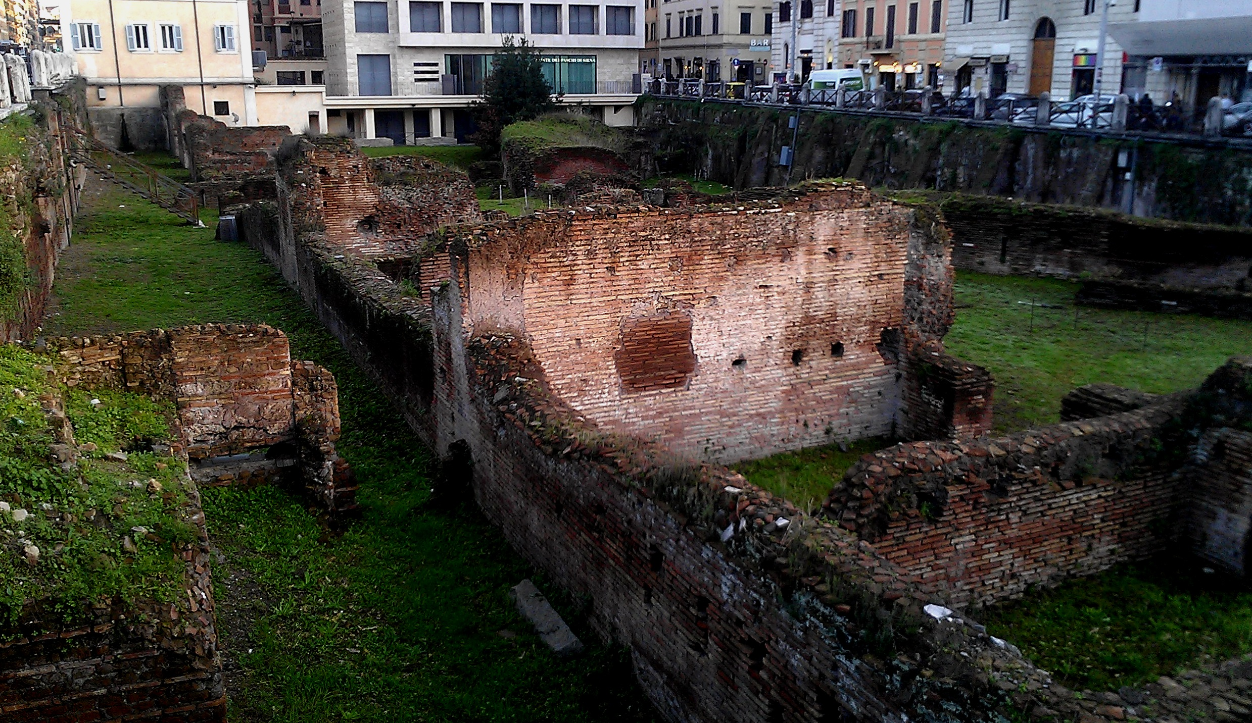 The Ludus Magnus in Rome taken from its north-western end.